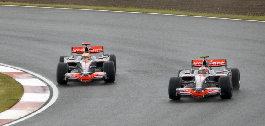 McLaren drivers Heikki Kovalainen and Lewis Hamilton battle in the early laps of the 2008 British Grand Prix.